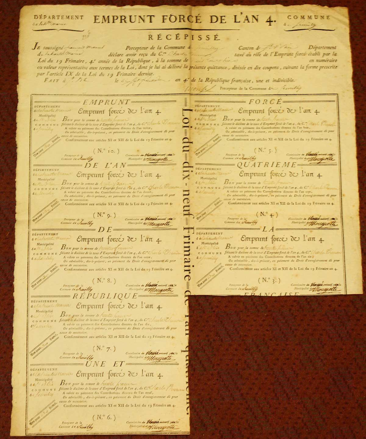 Board of forced loans, Year 4 of the French Republic